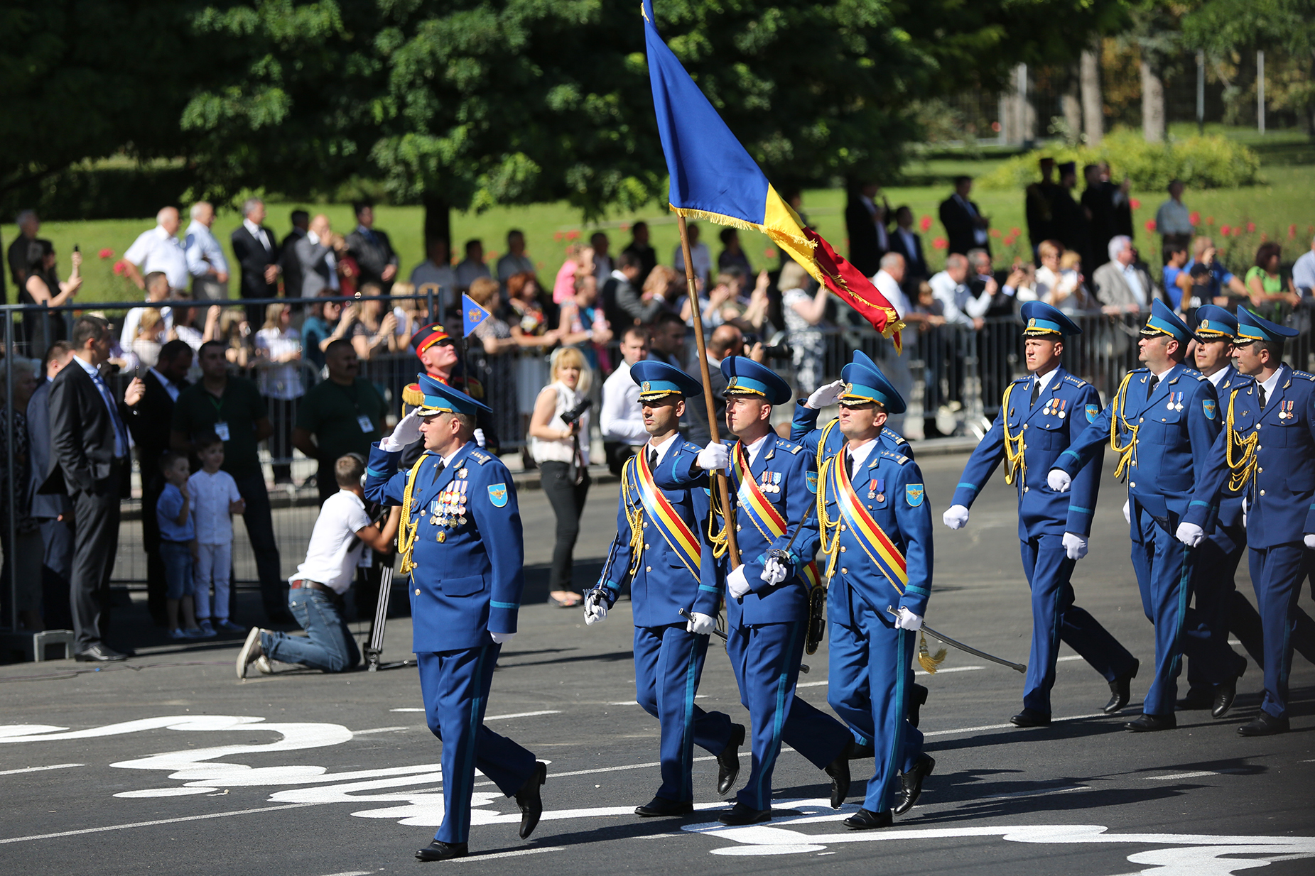 Сьогодні, 27 серпня, Міністр оборони України генерал армії України Степан Полторак взяв участь в урочистостях з нагоди відзначення 25 річниці незалежності Молдови